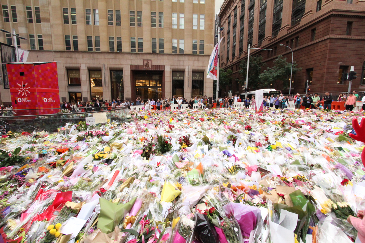 Public tributes for the 2014 Sydney hostage crisis in Martin Place